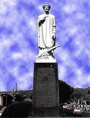 Statue of St. Abune Petros in Addis Ababa, Ethiopia.